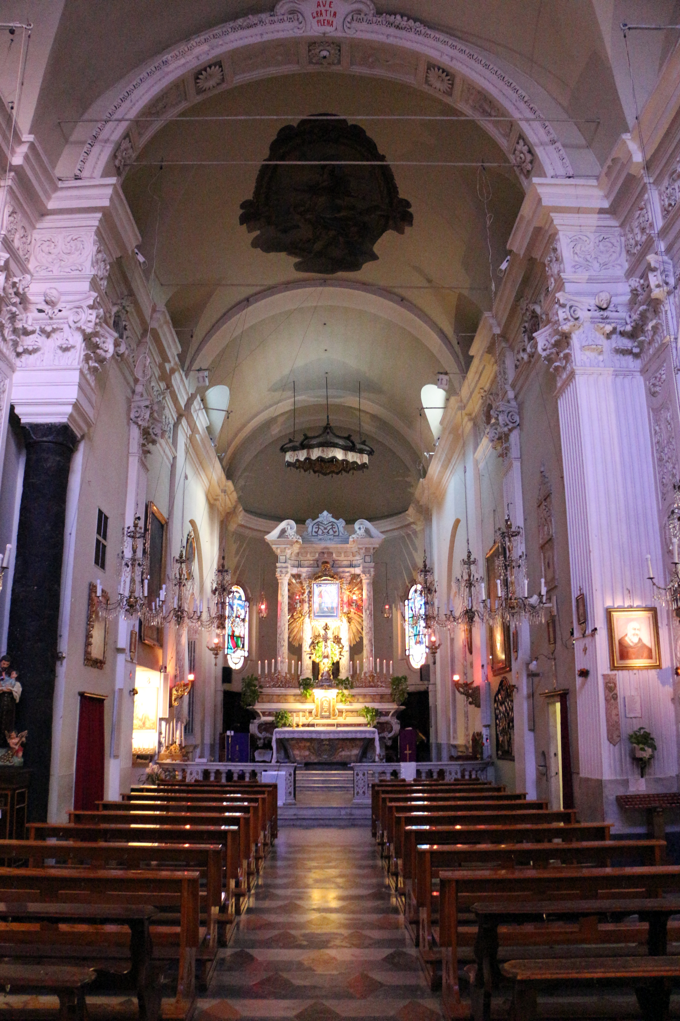 Santa Maria della Castagna, Genoa